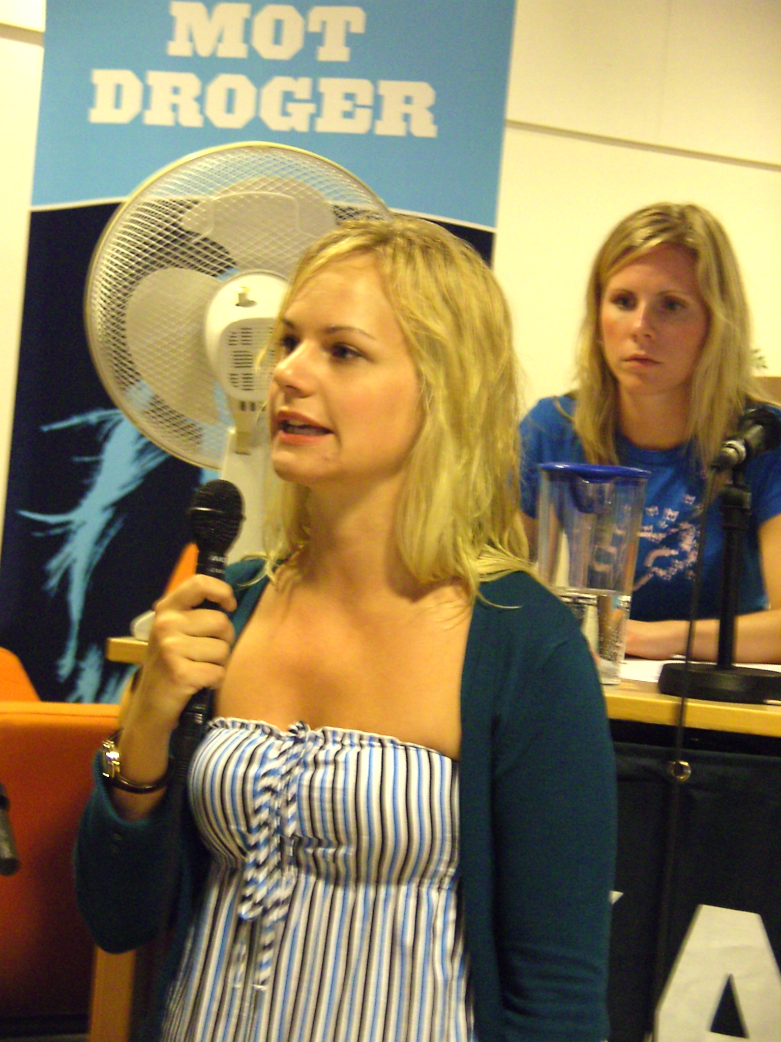 Frida Johansson Metso speaking at the congress of Ungdomens Nykterhetsförbund, 2007-07-07.